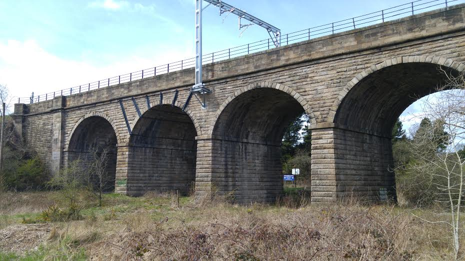 The Four Aches Viaduct at Croy Station